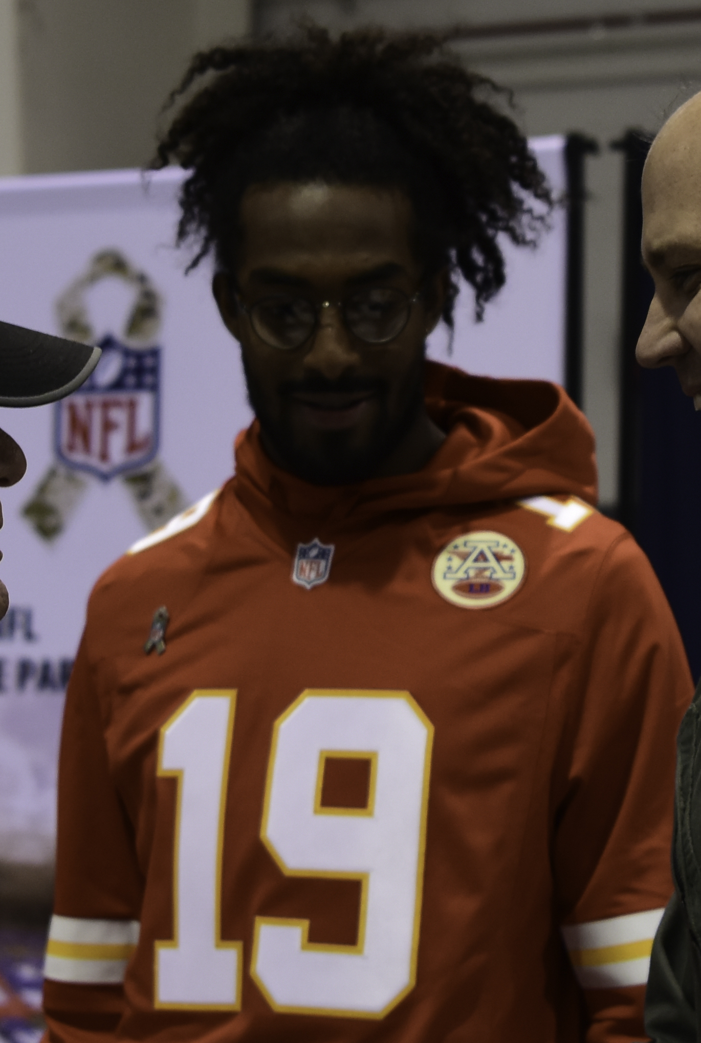 Brigadier General John Nichols accepts a game ball during a visit from the Kansas City Chiefs at Whiteman Air Force Base, Missouri, Nov. 6, 2018. The meet and greet was part of the National Football League’s Salute to Service, which is a year-round effort to honor, empower and connect the nation’s service members, veterans and their families. (U.S. Air Force photo by Airman Parker J. McCauley)